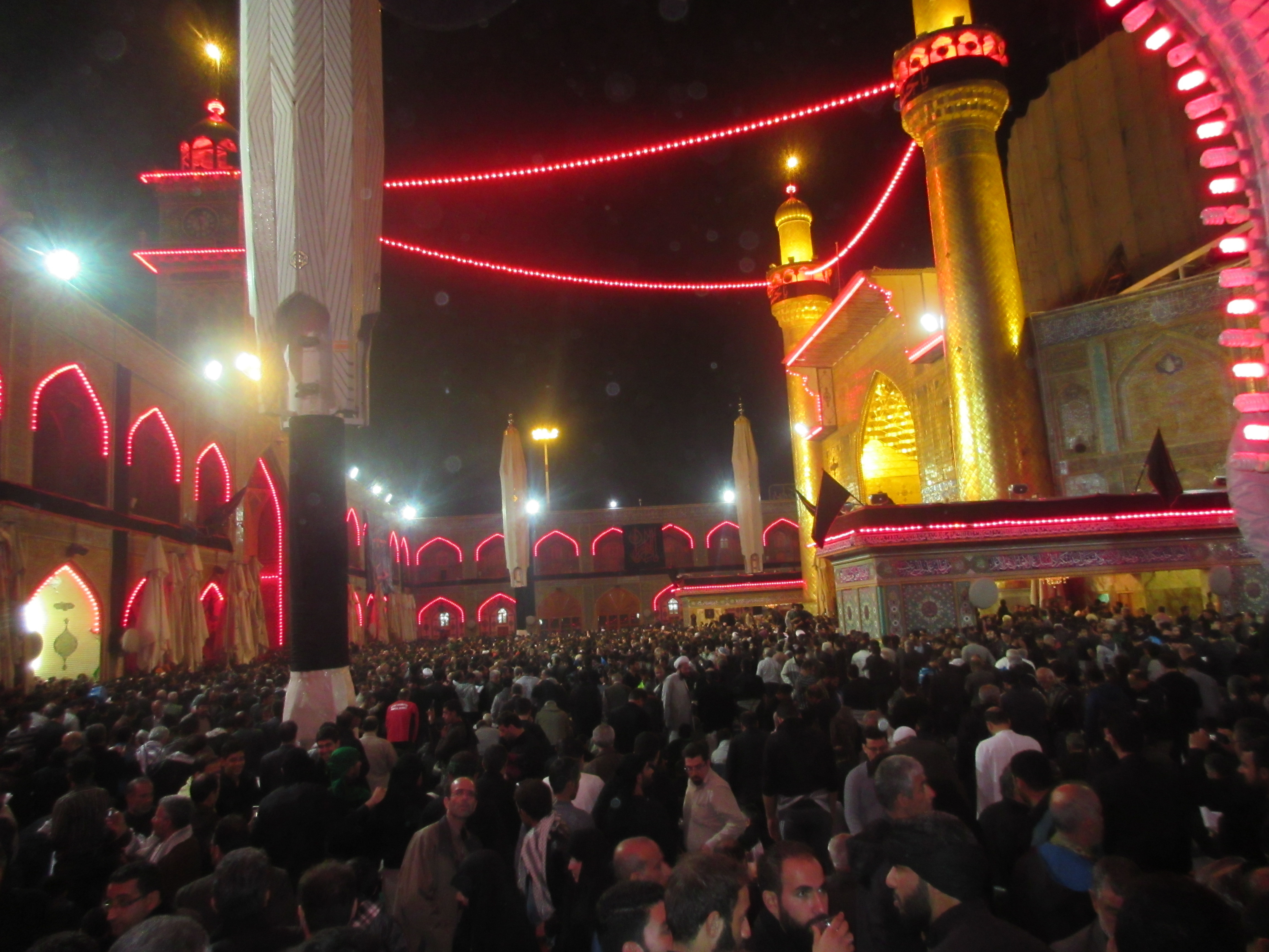 Imam Ali's shrine during Arbaeen 2015.